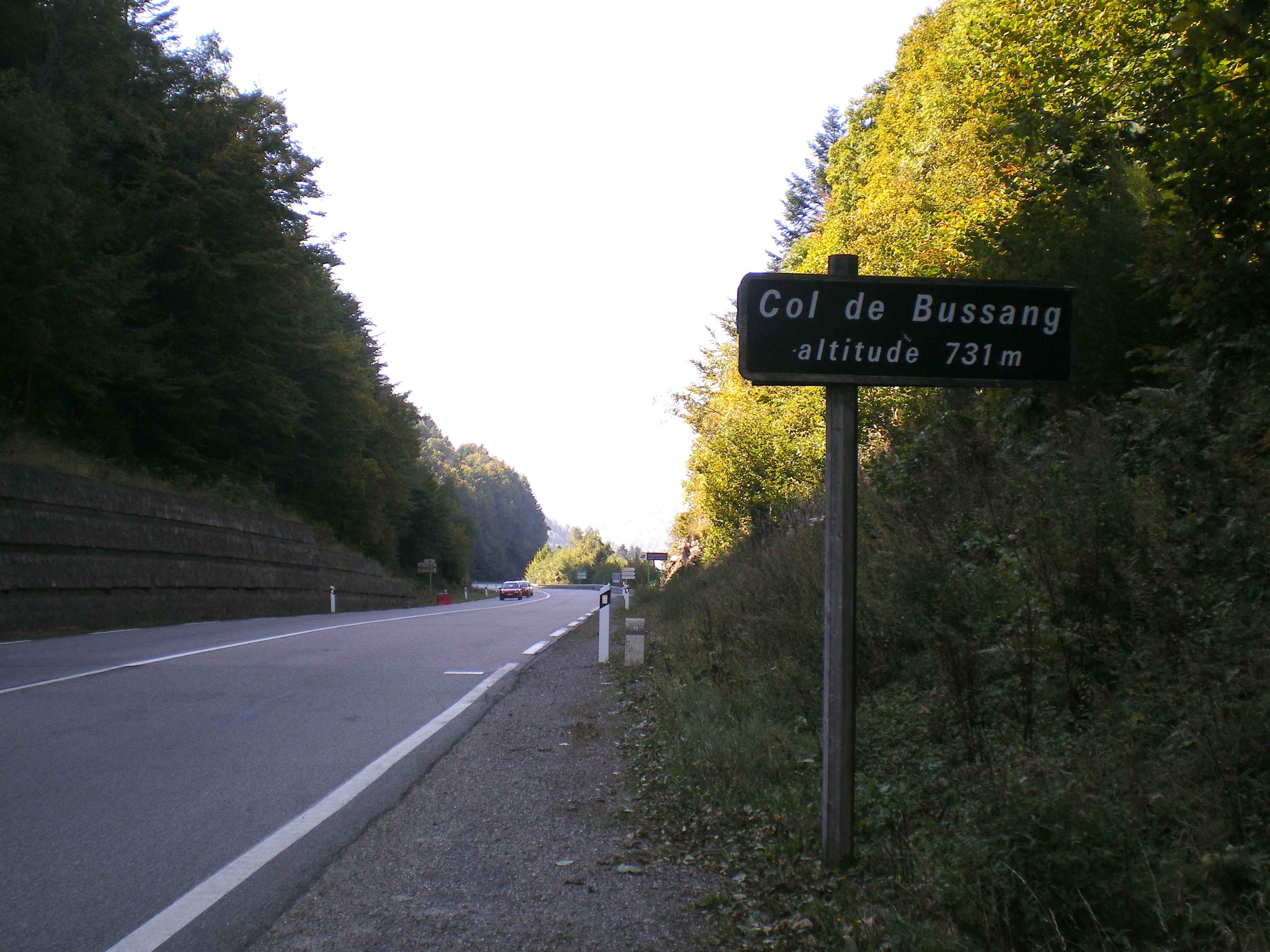 Col de Bussang: Pass summit with sign